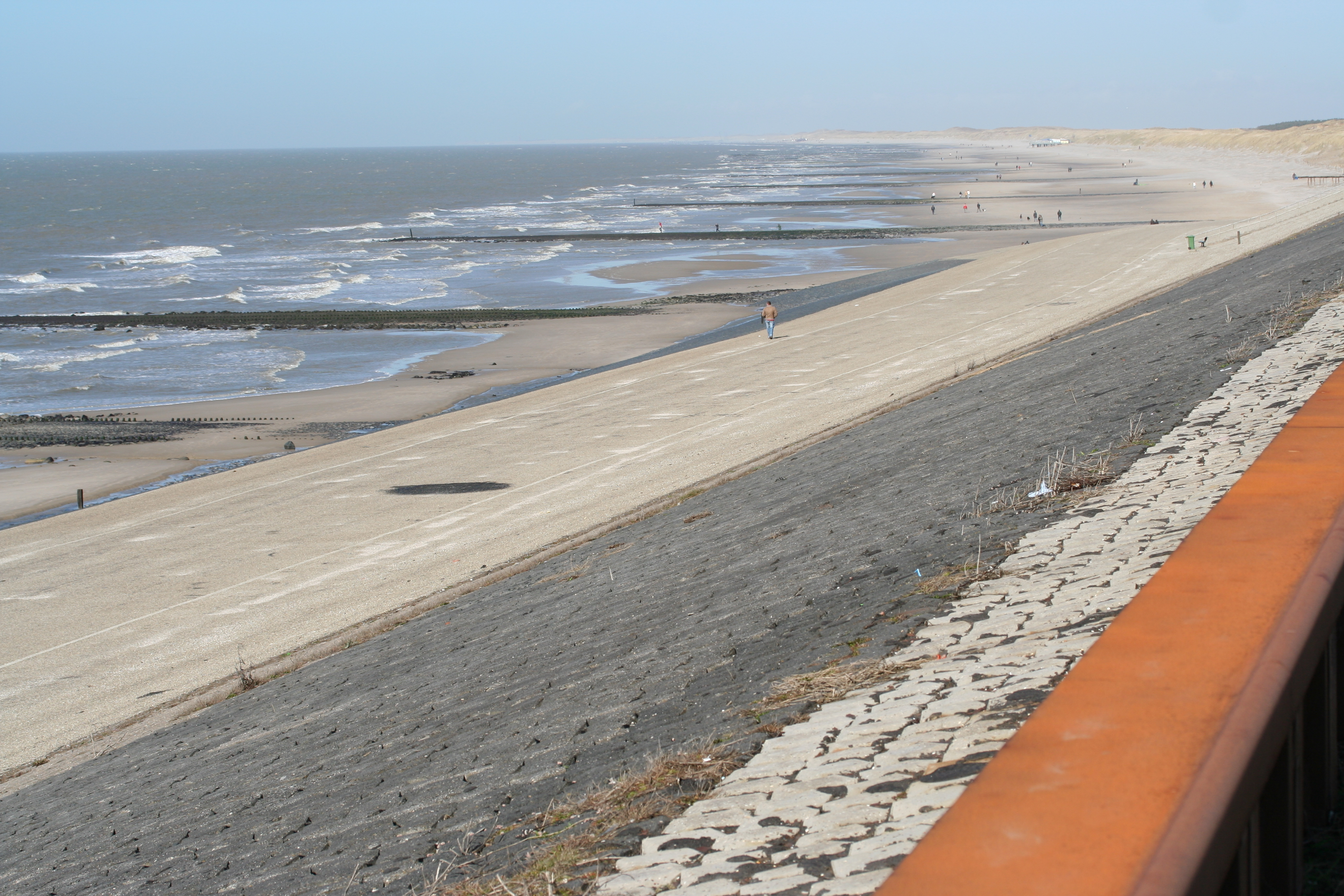 Beach Petten, the Netherlands 2 april 2006